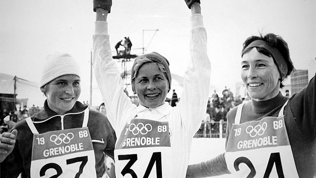 The podium after the Women's 5 kilometer cross-country ski race at the 1968 Grenoble Winter Olympics. From left to right: Galina Kulakova, Soviet Union (2nd), Toini Gustafsson, Sweden (1st) and Alevtina Kolchina, Soviet Union (3rd).